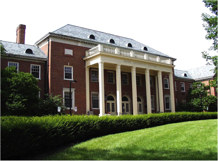 Miami University's Shriver Center - as seen today